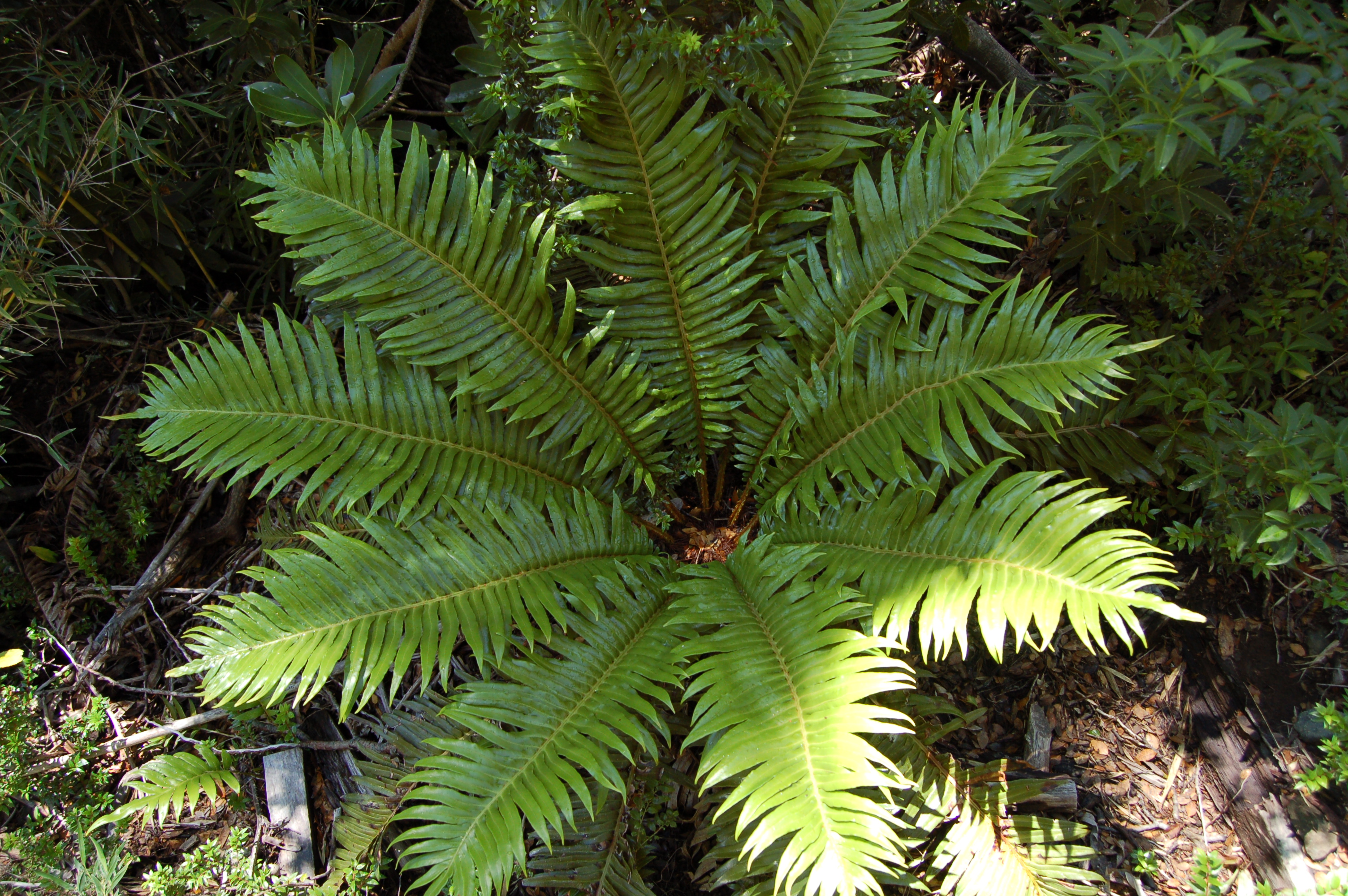 Image of a Blechnum magellanicum taken from above the plant, with pinnate leaves radiating from its center.